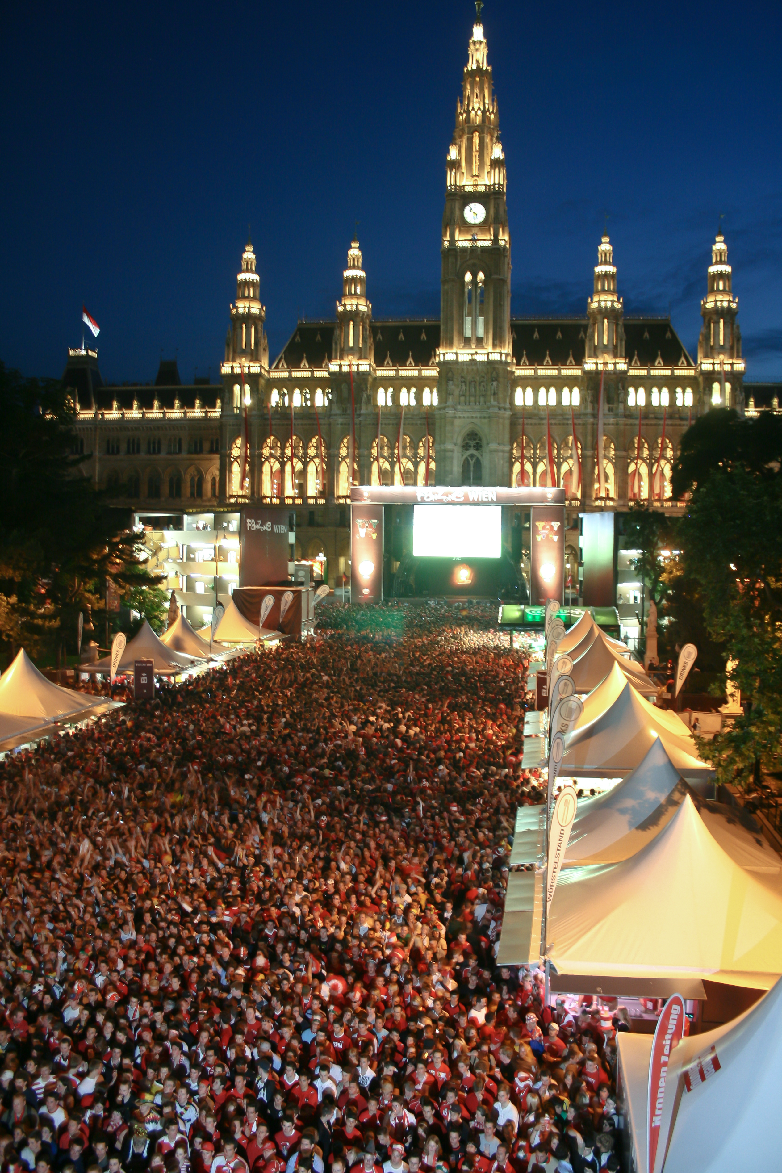 Public Viewing in Vienna during UEFA Euro 2008